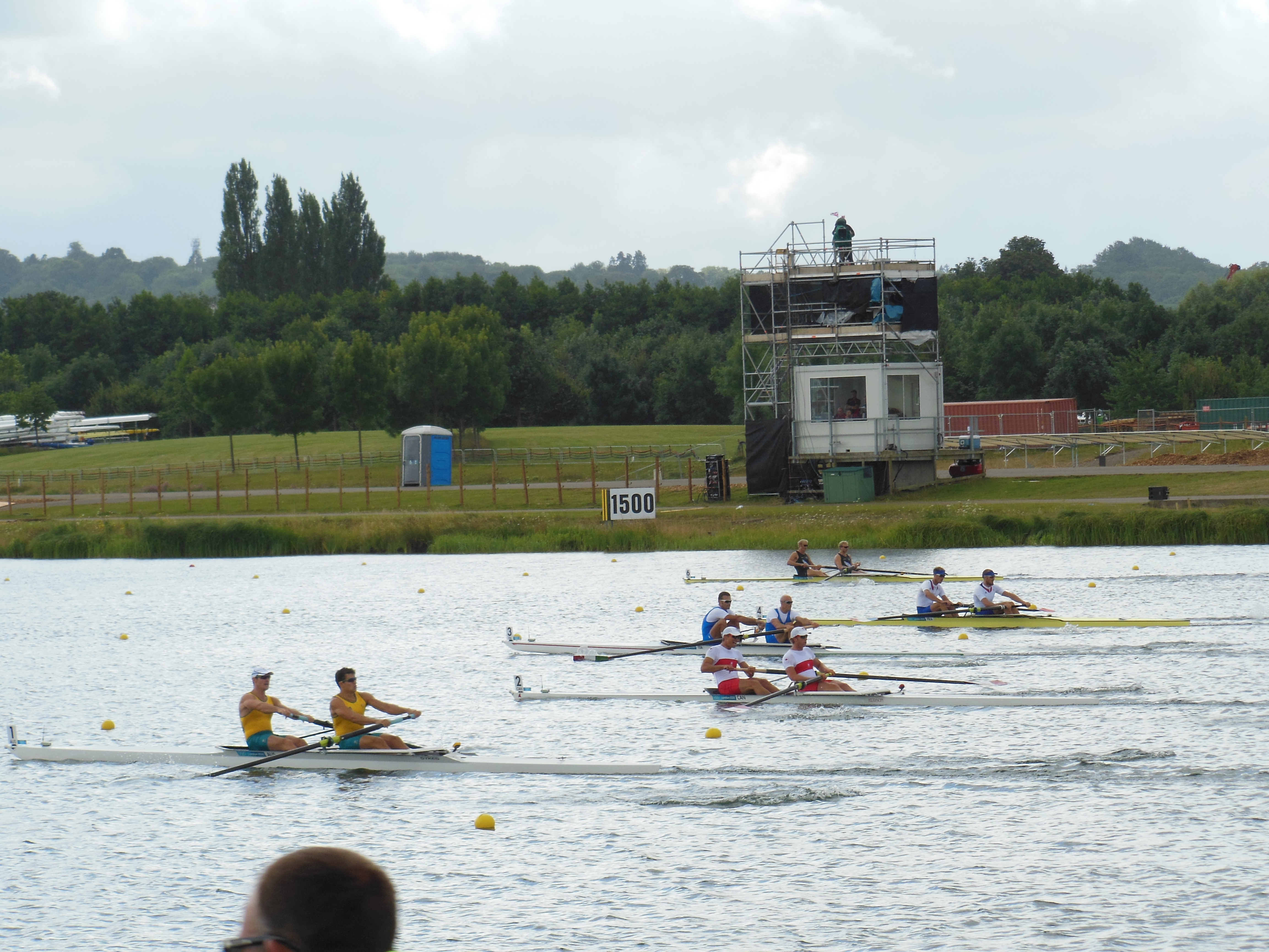 01 ! Eric Murray Hamish Bond New Zealand 6:16.65 02 ! Germain Chardin Dorian Mortelette France 6:21.11 03 ! George Nash William Satch Great Britain 6:21.77 4 Niccolo Mornati Lorenzo Carboncini Italy 6:26.17 5 James Marburg Brodie Buckland Australia 6:29.28 6 David Calder